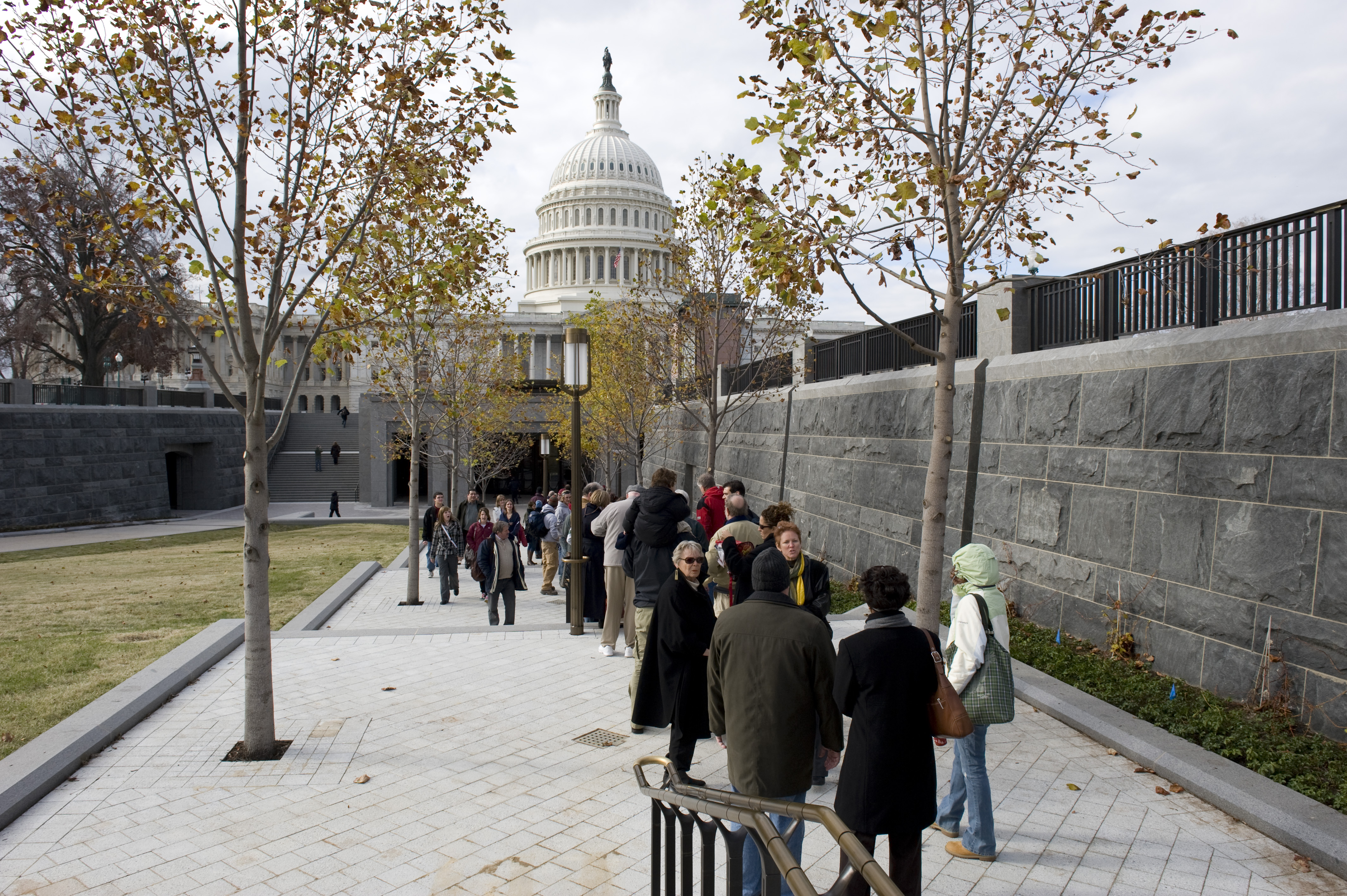 Visitors entering the U.S. Capitol Visitors Center on its opening day.